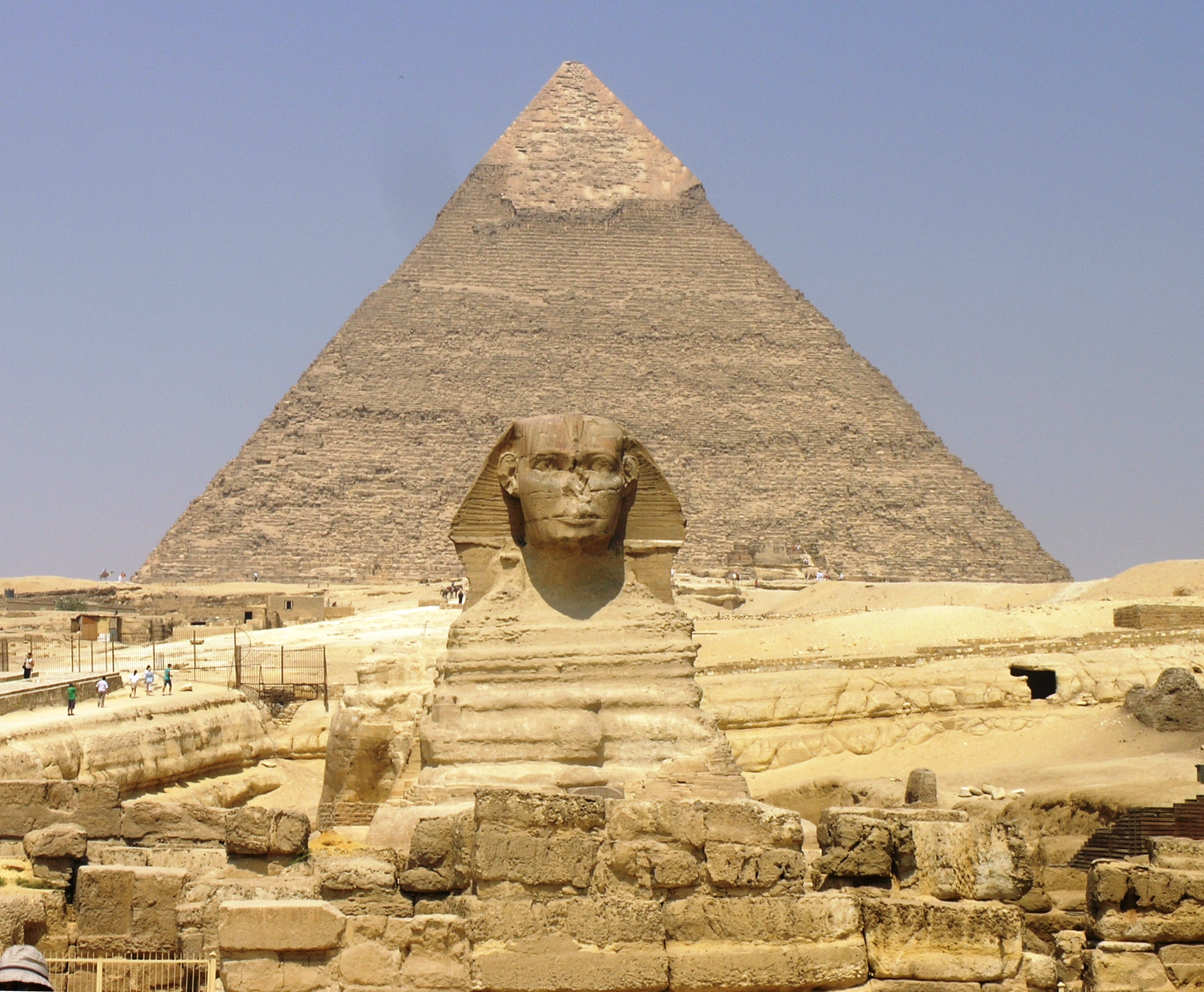 Giza Plateau - Great Sphinx with Pyramid of Khafre in background